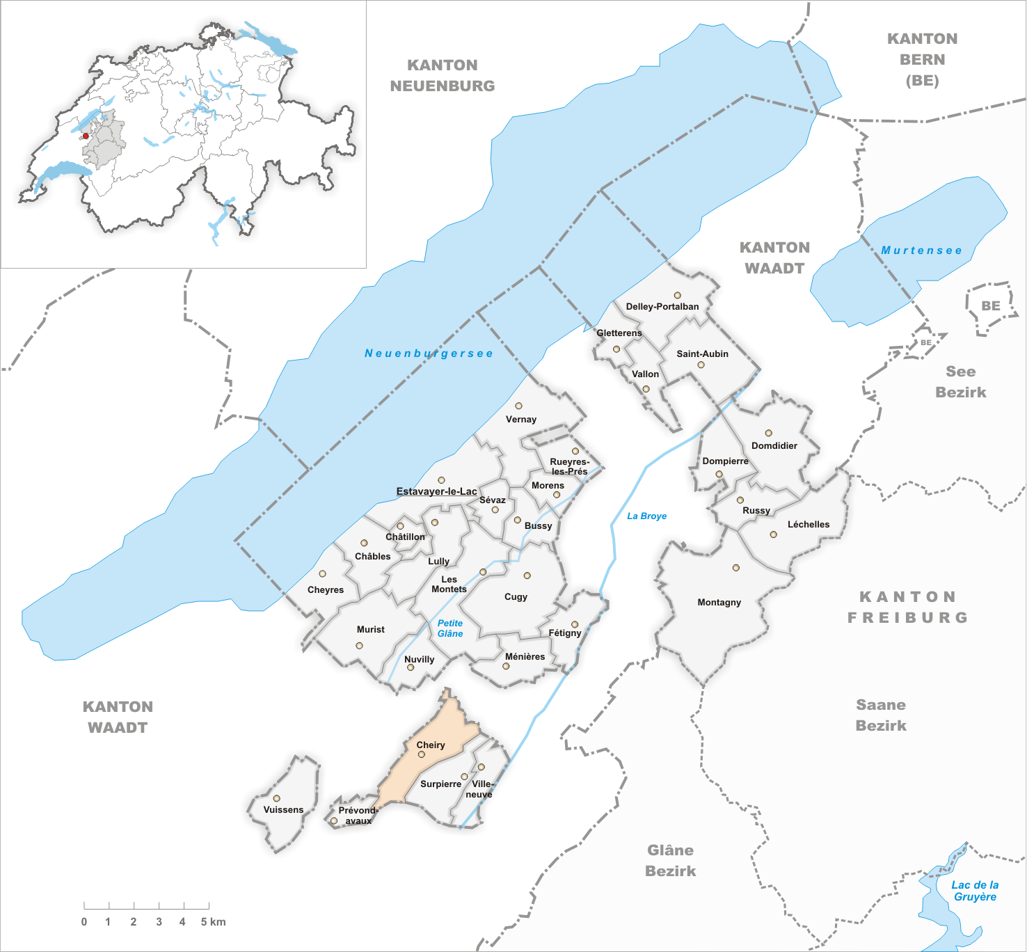 Municipality Cheiry